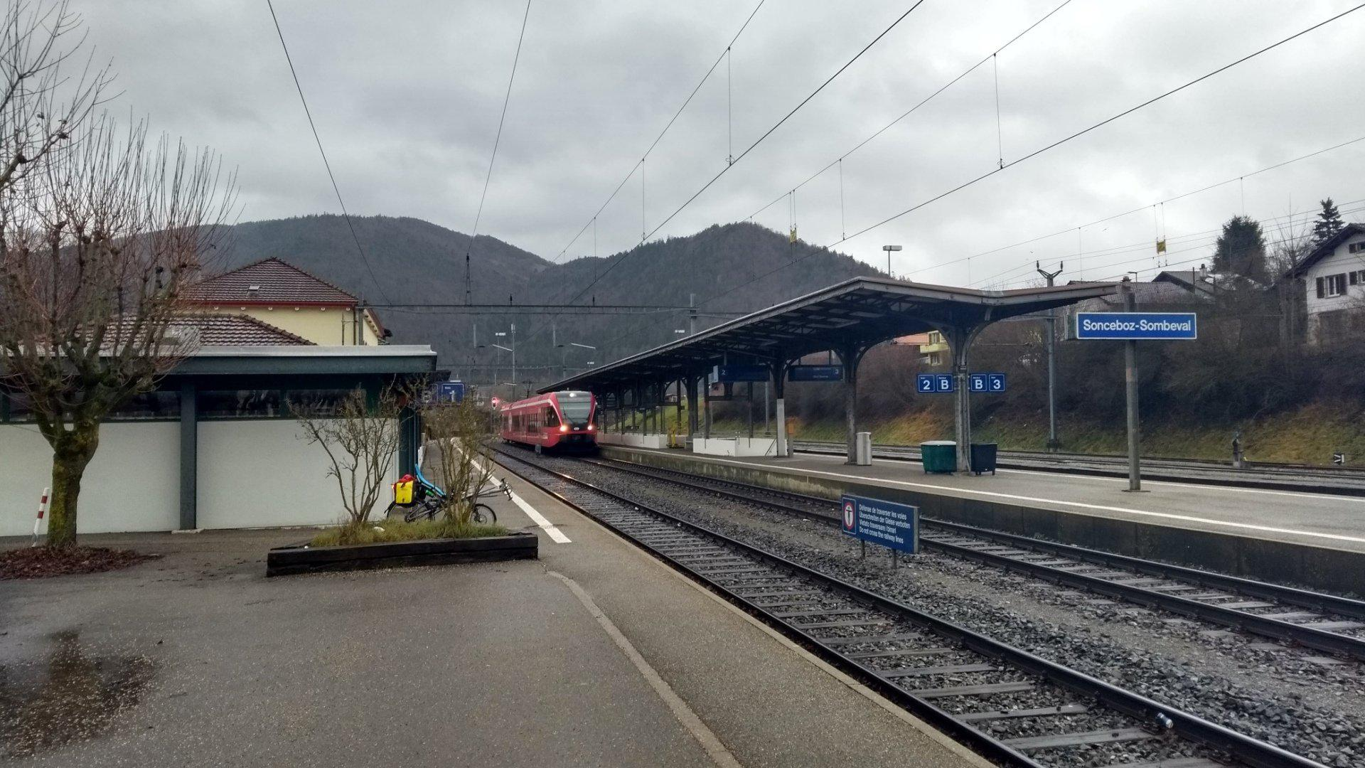 Sonceboz-Sombeval railway station in Sonceboz-Sombeval, Switzerland.